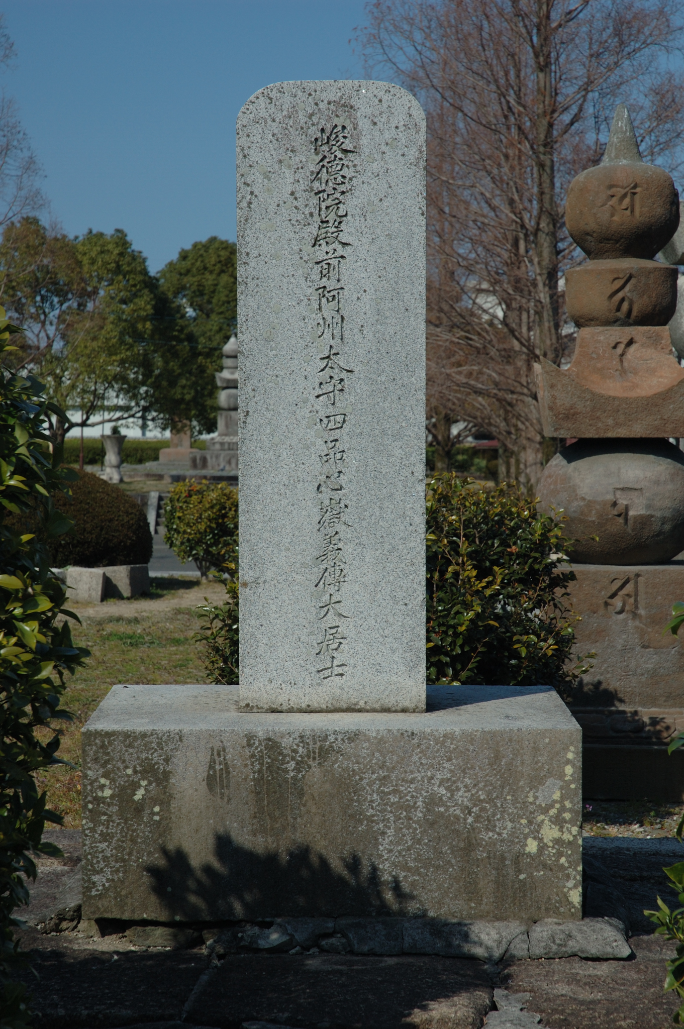 grave of Hachisuka Yoshishige(the first feudal lord)